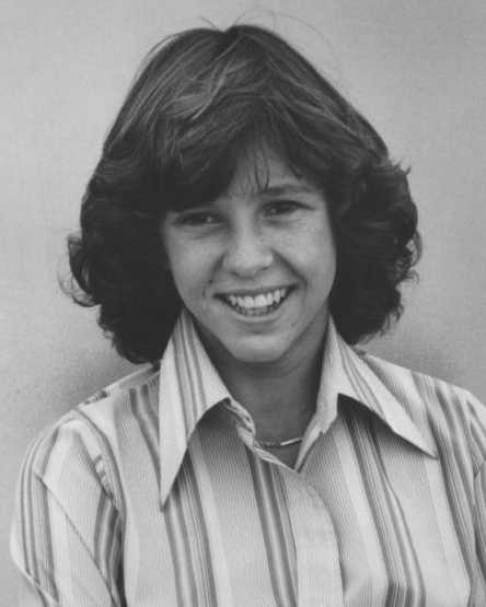 Publicity photo of teen actress Christina Ann "Kristy" McNichol during her time on the ABC television series Family.